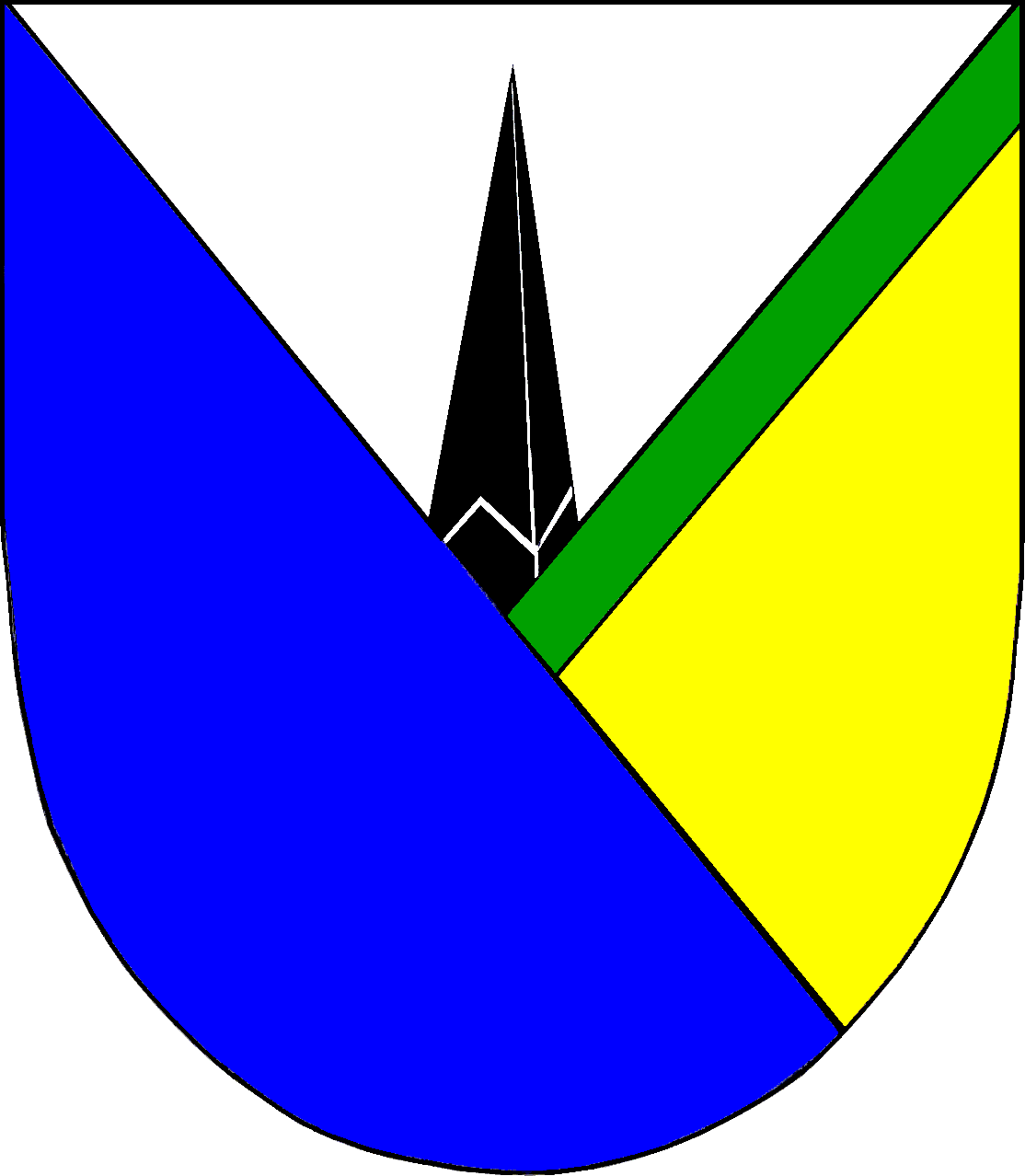 Coat of arms of the municipality Galmsbüll in Schleswig-Holstein, Germany.